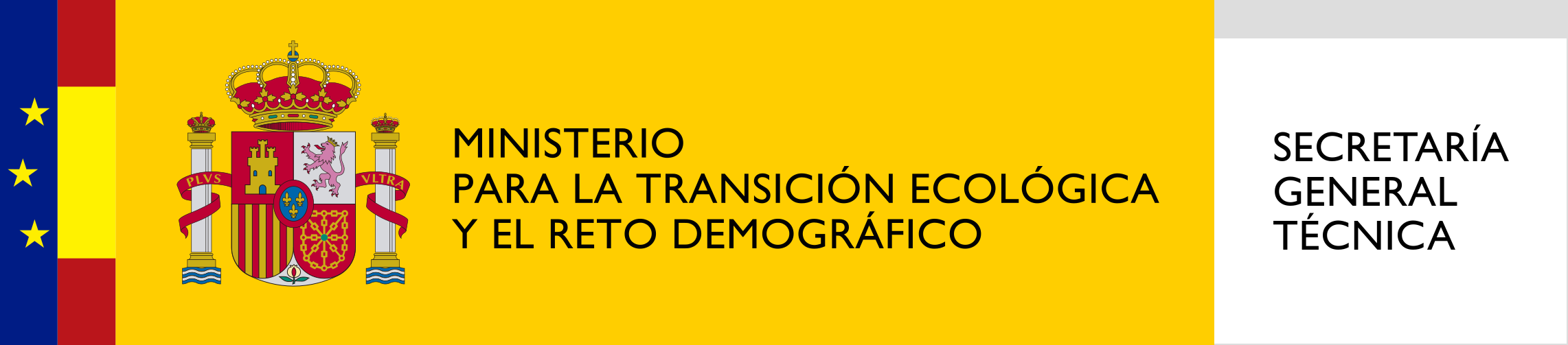 Logo of the General Technical Secretariat of the Ministry for Ecological Transition.